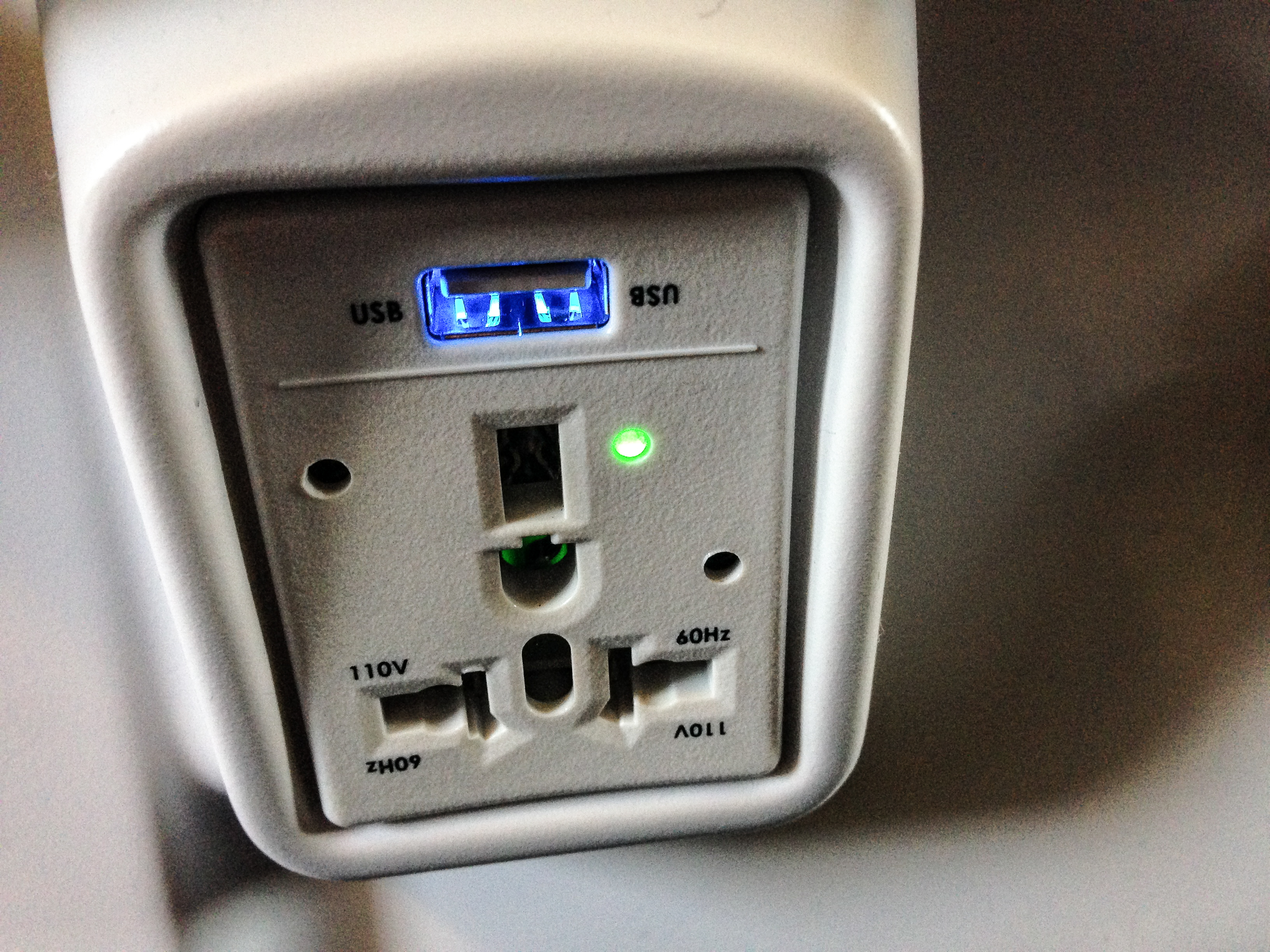 On an Alaska Airlines flight from SFO to PDX: 110V international power sockets with USB ports!